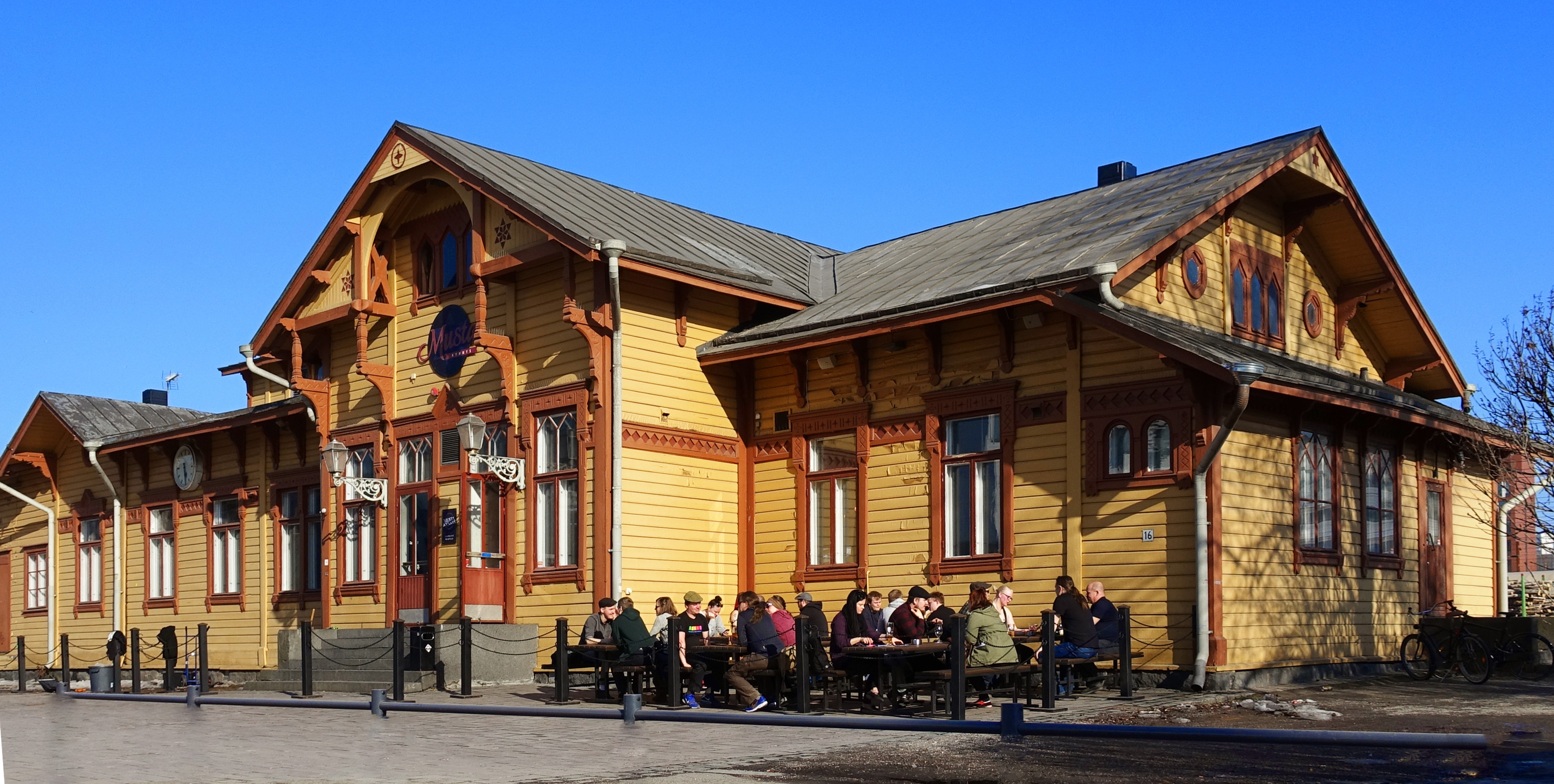 Old railway station building of Jyväskylä, now it's the restaurant Musta Kynnys.